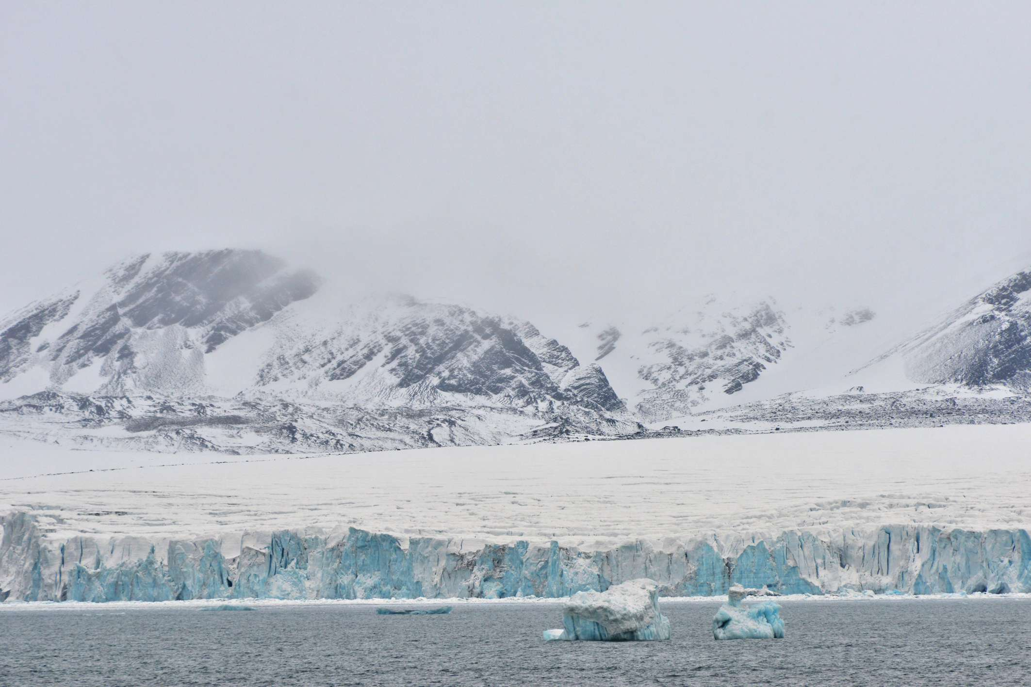 Inostranseva Glacier (Inostrantseva Bay, Northern Island of Nowaya Semlya Archipelago, Russia; 76°30’N, 66°5’E)